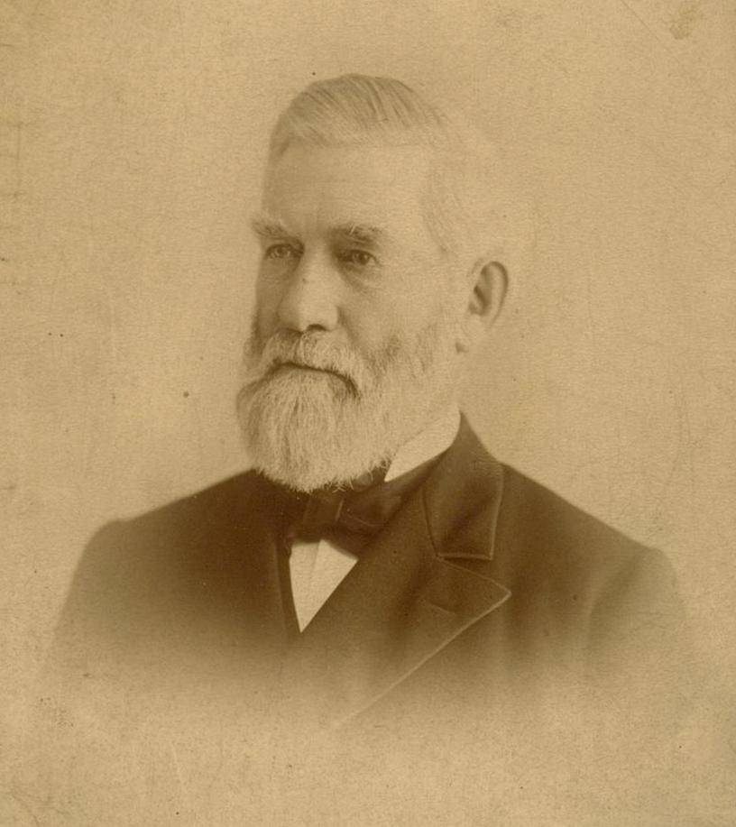 Lorenzo Sawyer, Justice for the Supreme Court of California (1863–1869), also served on the United States Court of Appeals for the Ninth Circuit (1870–1891).